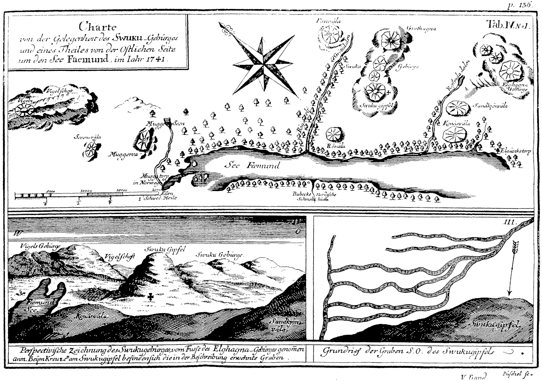 Map of the Swuku-Mountains and part of the east side of Lake Femund, Norway, 1741.